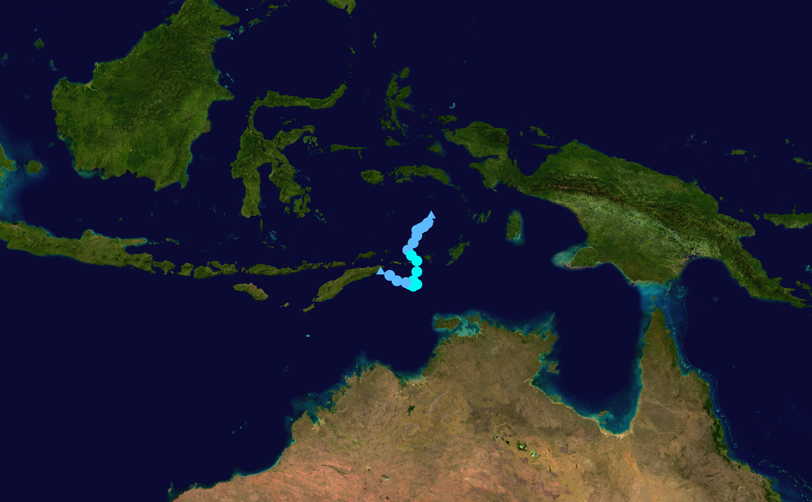 Track map of Tropical Cyclone Lili of the 2018-19 Australian region cyclone season. The points show the location of the storm at 6-hour intervals. The colour represents the storm's maximum sustained wind speeds as classified in the Saffir–Simpson scale (see below), and the shape of the data points represent the nature of the storm, according to the legend below. Saffir–Simpson scale Tropical depression≤38 mph≤62 km/h Category 3111–129 mph178–208 km/h Tropical storm39–73 mph63–118 km/h Category 4130–156 mph209–251 km/h Category 174–95 mph119–153 km/h Category 5≥157 mph≥252 km/h Category 296–110 mph154–177 km/h Unknown Storm type Tropical cyclone Subtropical cyclone Extratropical cyclone / Remnant low / Tropical disturbance